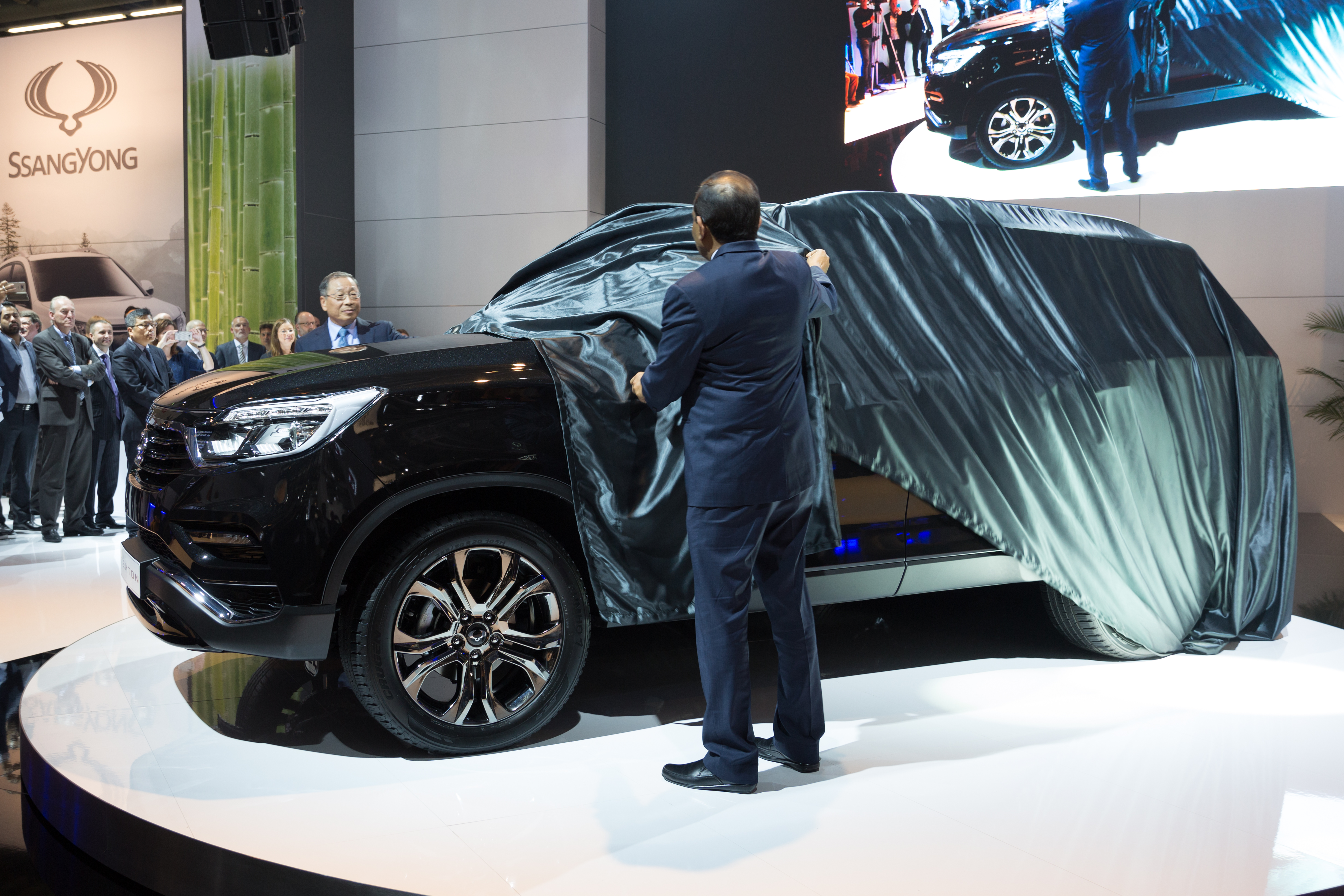 Unveiling of the new Rexton at the SsangYong press conference, IAA 2017